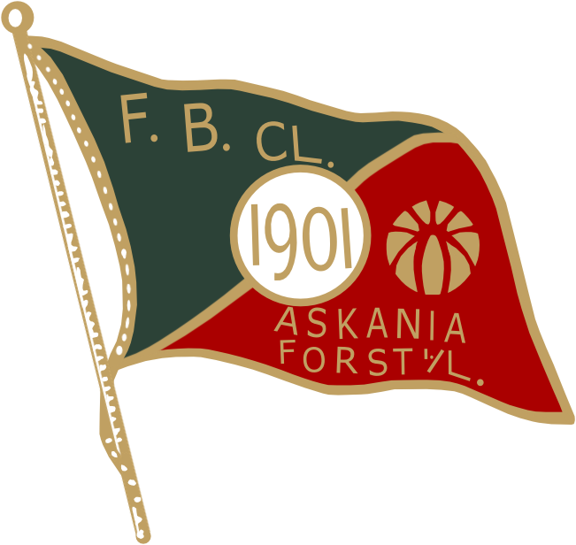 Logo of FC Askania Forst. German football team.